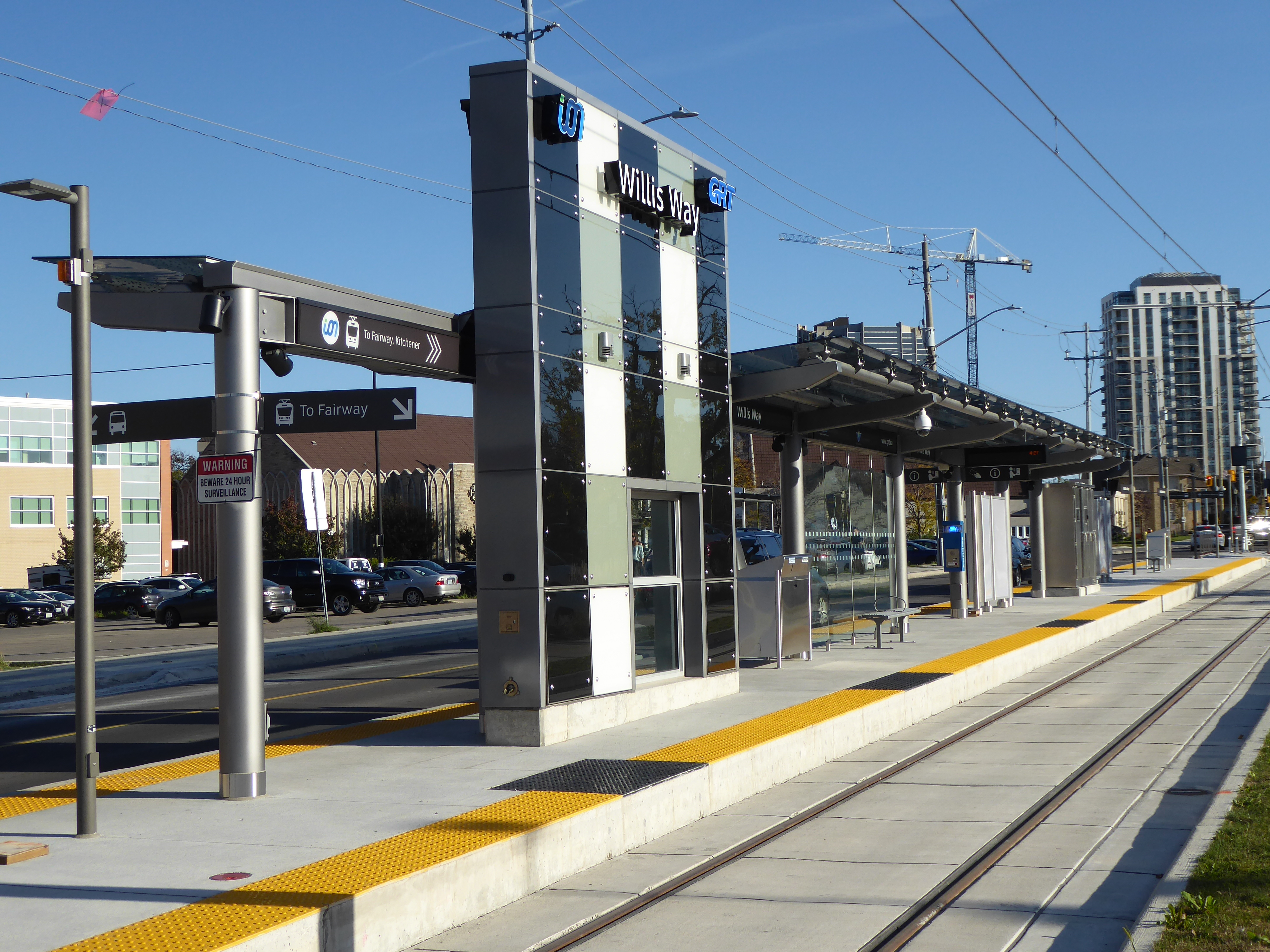 Willis Way Station of the Ion rapid transit system, photographed structurally complete October 2017